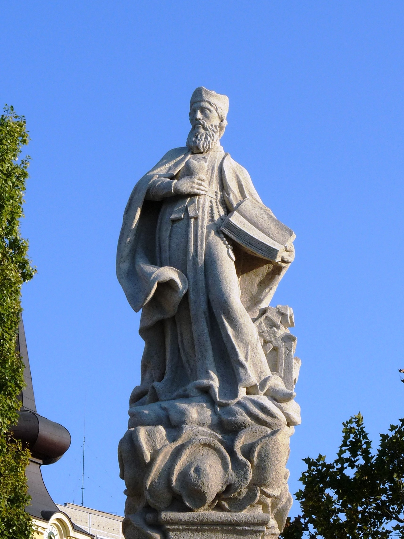 Statue of Philip Neri. Part of the Votive altar in Óbuda. (Budapest, District III, Flórián Square)